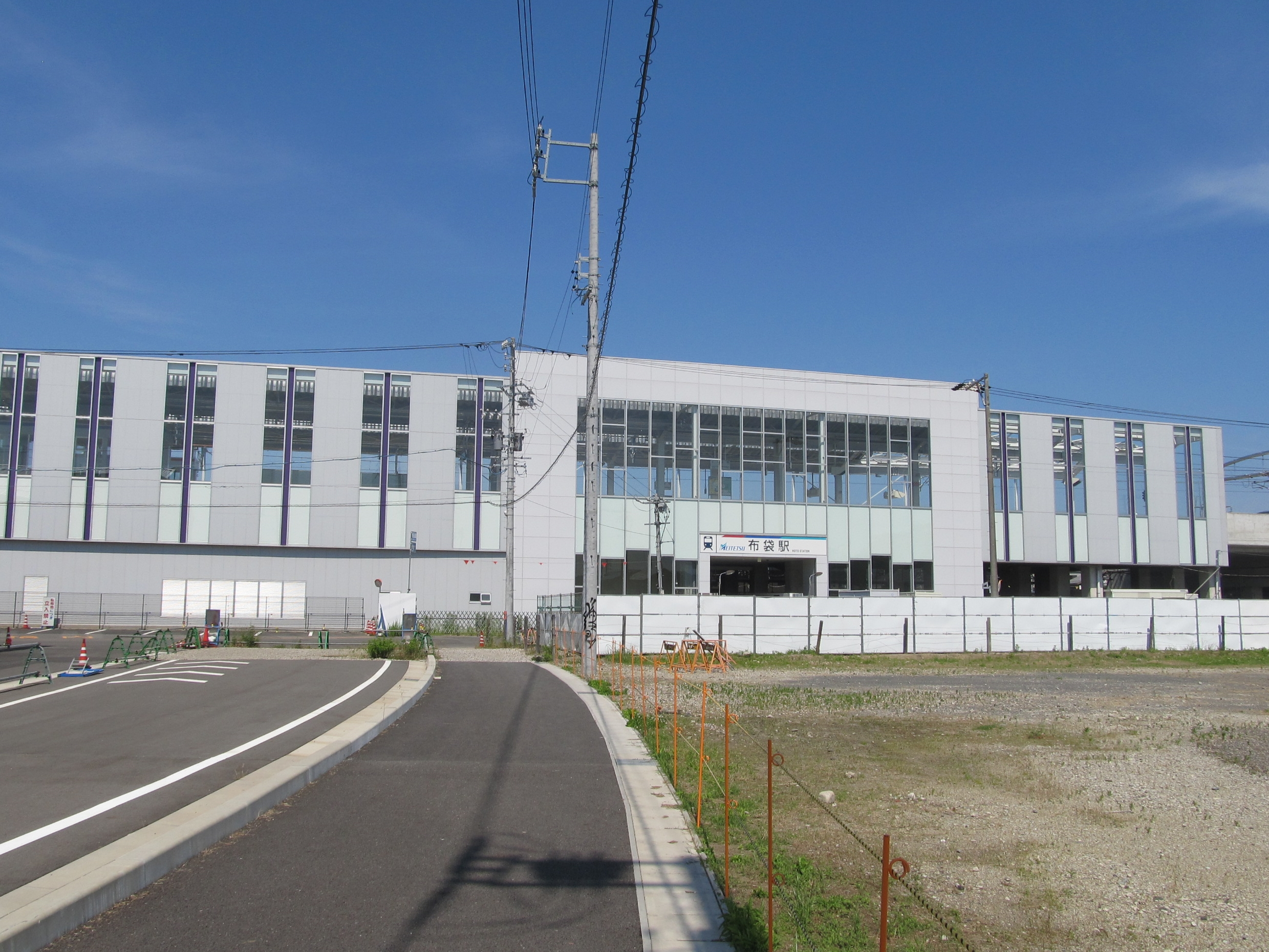 Nagoya Railroad Inuyama Line Hotei Station East Gate